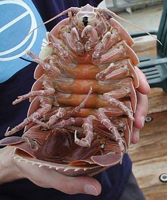 The underside of a male Bathynomus giganteus, a species of giant isopod captured in the Gulf of Mexico in October 2002.